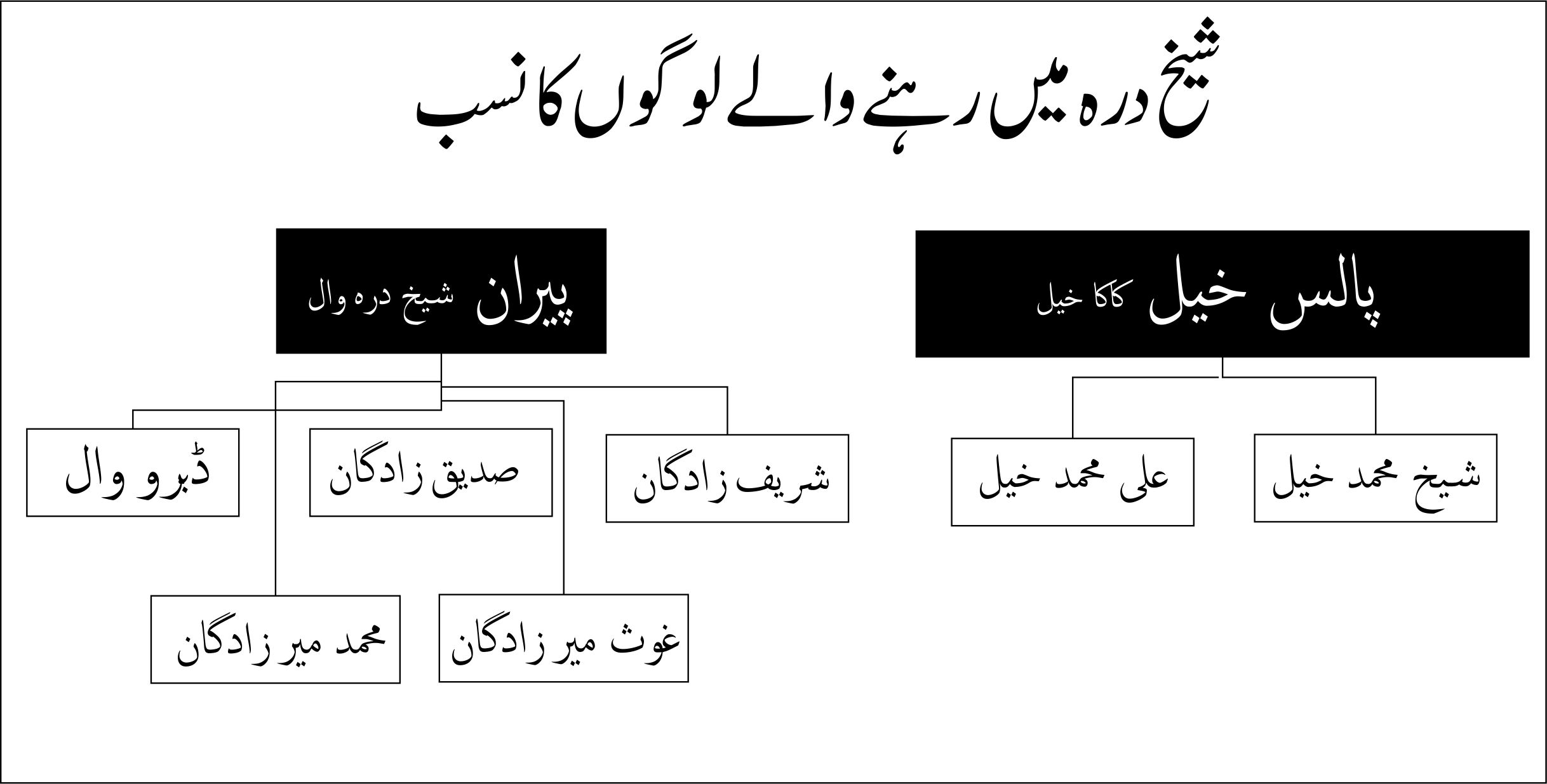 The tribes that live at Shaikhdara are traced back as in this picture.